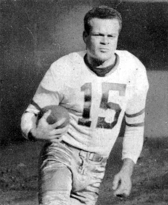 National Football League halfback Steve Van Buren on a 1948 Bowman Gum football trading card with the Philadelphia Eagles